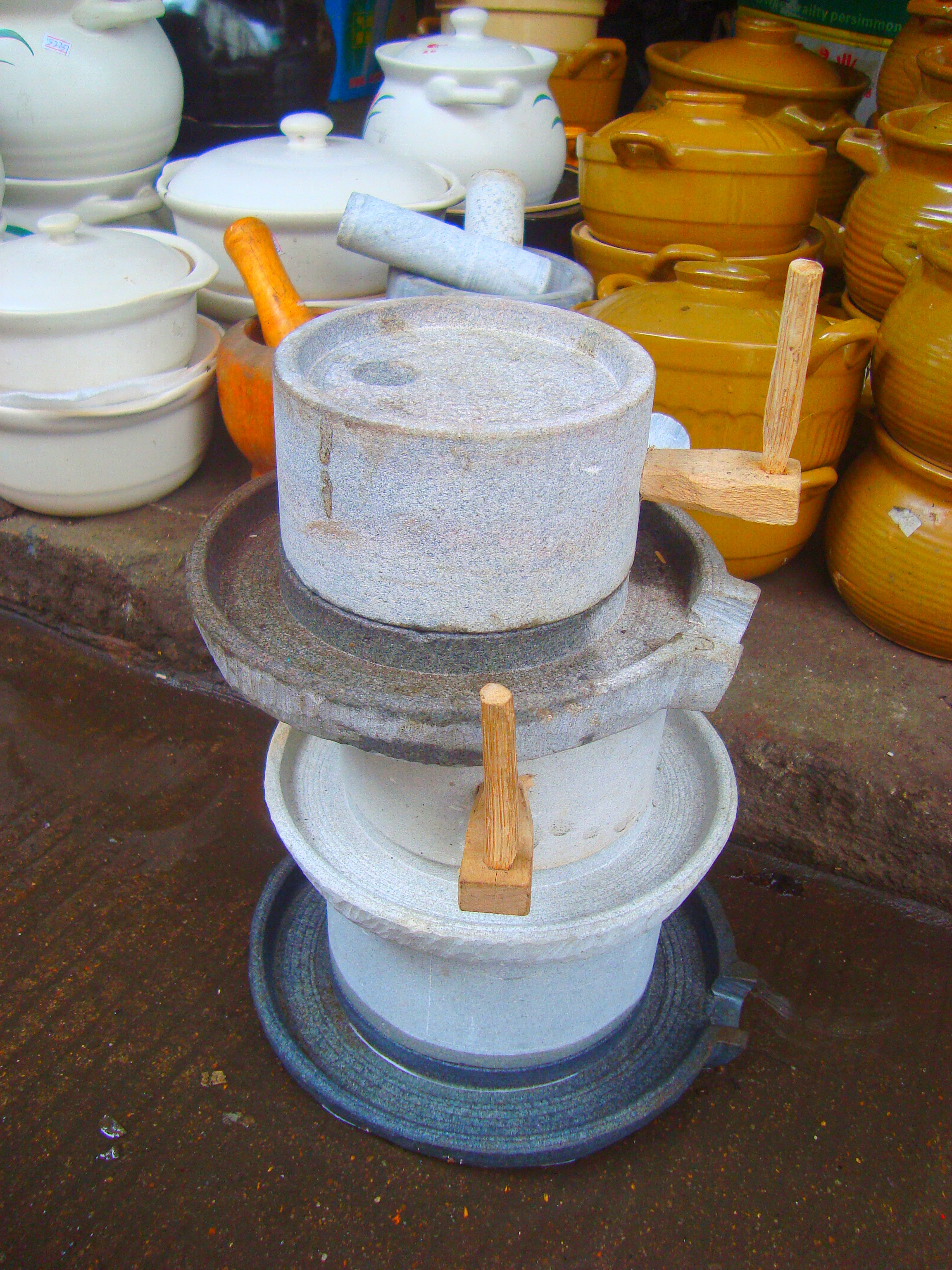 A stack of quern-stones for sale in a market in Haikou, Hainan, China. These quern-stones are only about 30 cm wide. They are indeed a rare sight.